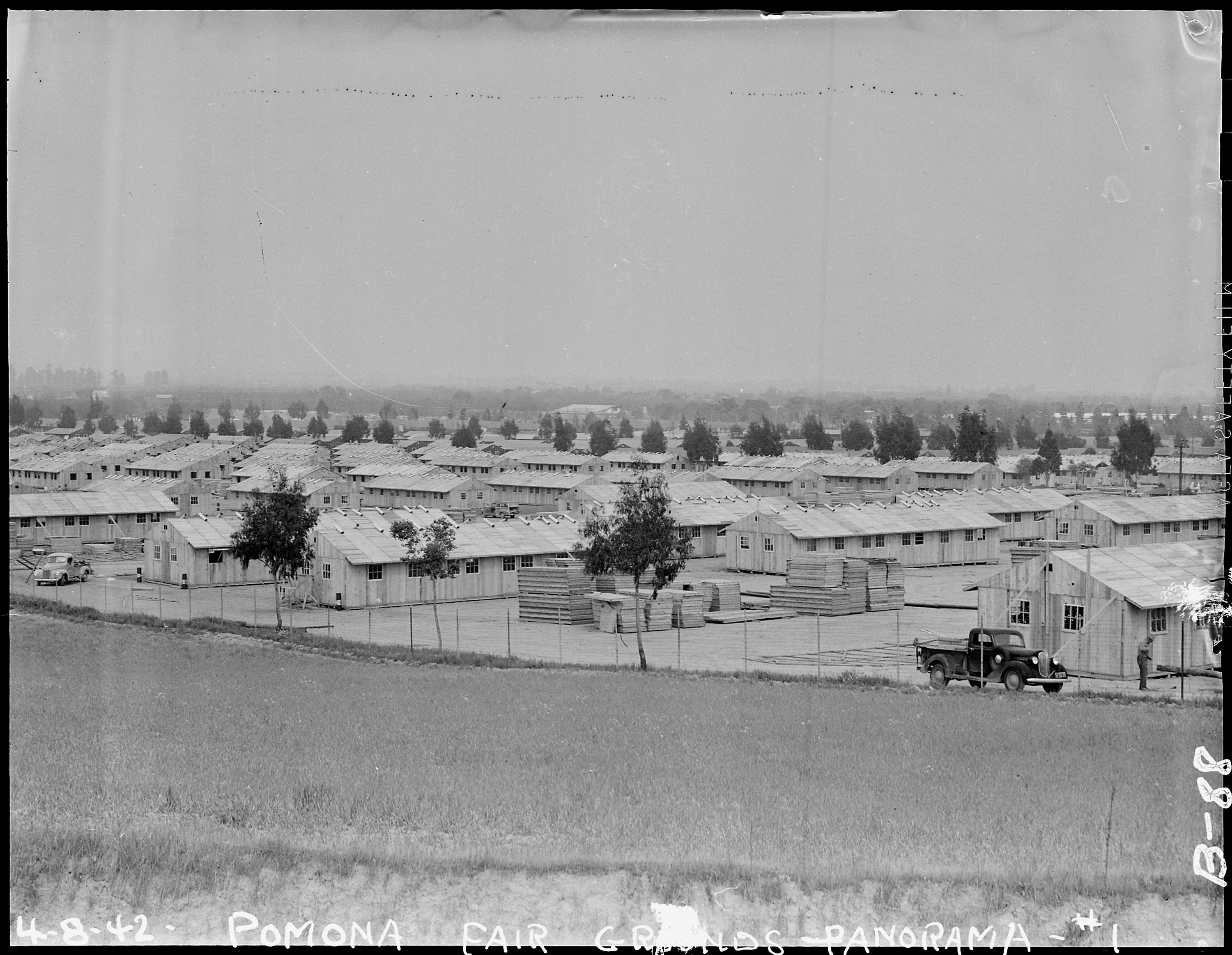 Scope and content: The full caption for this photograph reads: Pomona, California. General view of assembly center being constructed on Pomona Fair Grounds for evacuees of Japanese ancestry. Evacuees will be assigned later to War Relocation Authority centers for the duration.